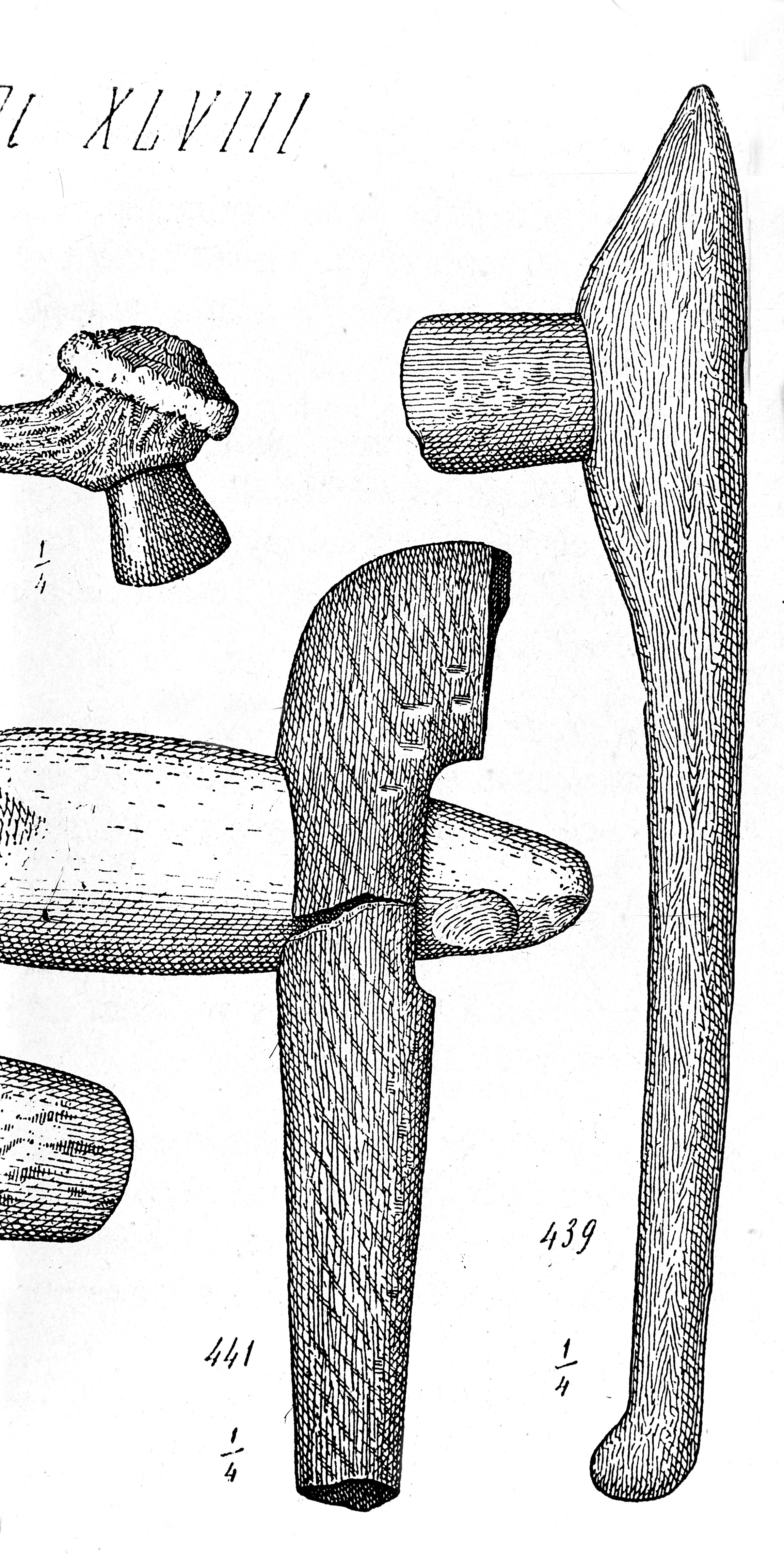 Neolithic hafted stone axe General Collections Keywords: Louis Laurent Gabriel de Mortillet; prehistoric archaeology; neolithic; typology; Adrien de Mortillet